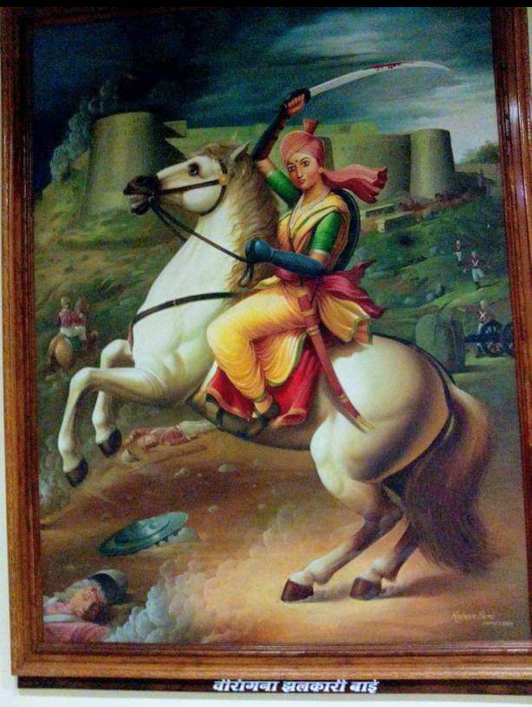 Freedom fighter of 1857 revolution's portrait in Jhansi Museum